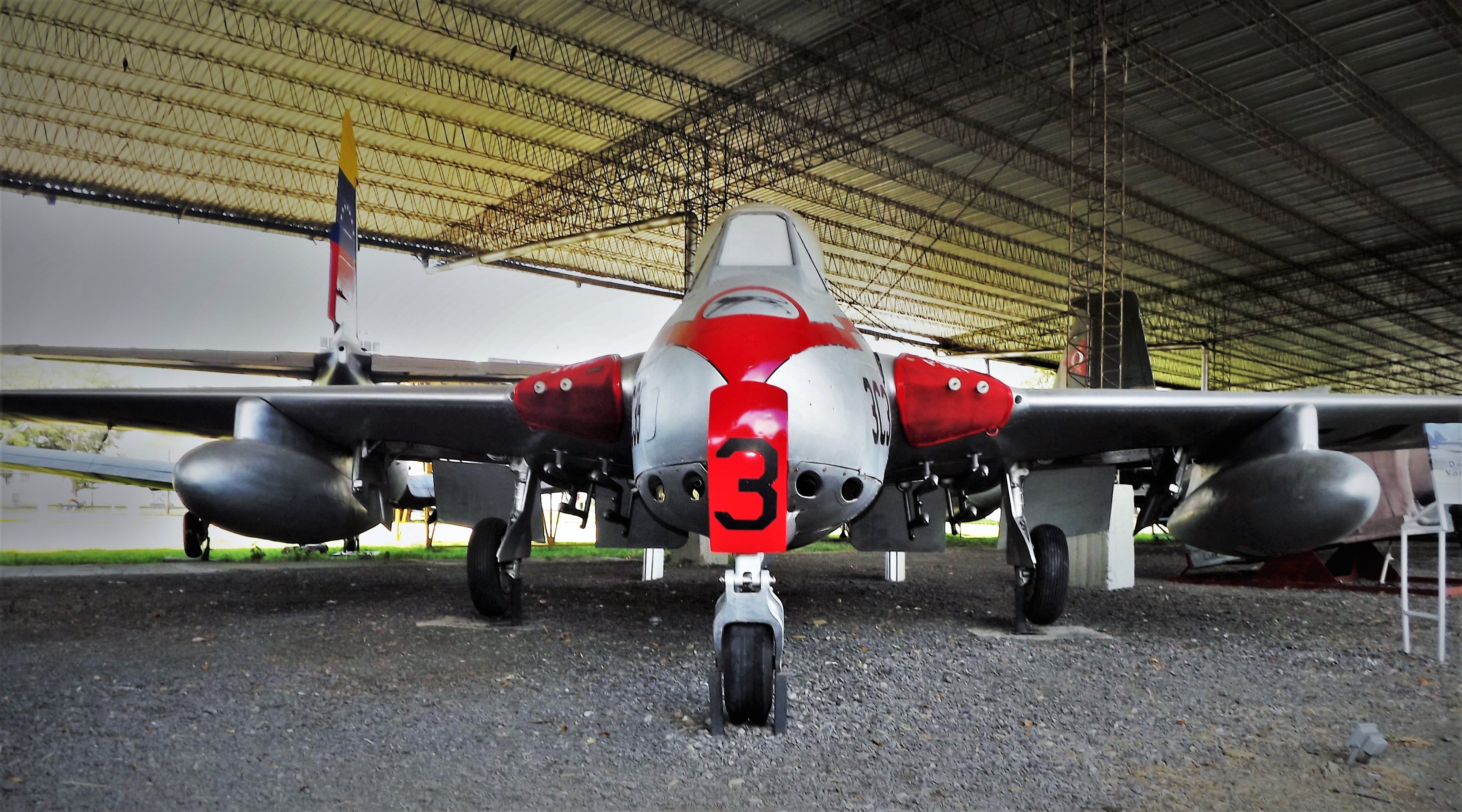 De Havilland DH100 Vampire FB - registration 3C35 of the Venezuelan Air Force exhibited in the Aeronautics Museum Colonel Luis Hernán Paredes of Maracay Venezuela